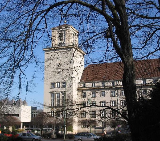 The townhall of Berlin-Tempelhof